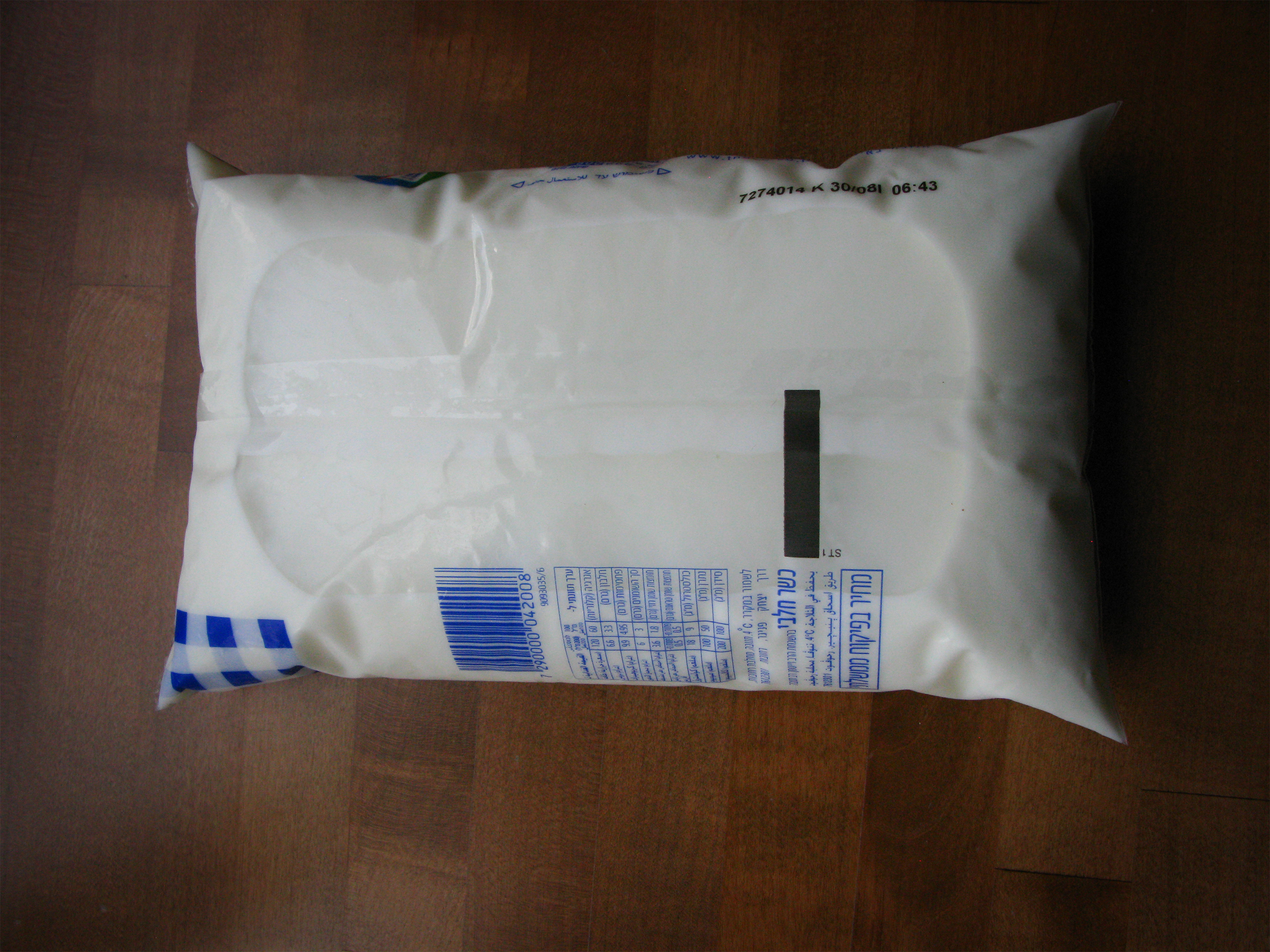 Milk Bag